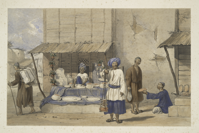 Image Title: Cabul : a fulloodeh stall, with Huzzareh's carrying snow, &c., to market Creator: Haghe, Charles, d. 1888 -- Lithographer Created Date: [1843] Medium: Lithographs -- Color Specific Material Type: Prints Item Physical Description: 25 x 39 cm. on mount 55 x 45 cm. Source: Character & costumes of Afghaunistan